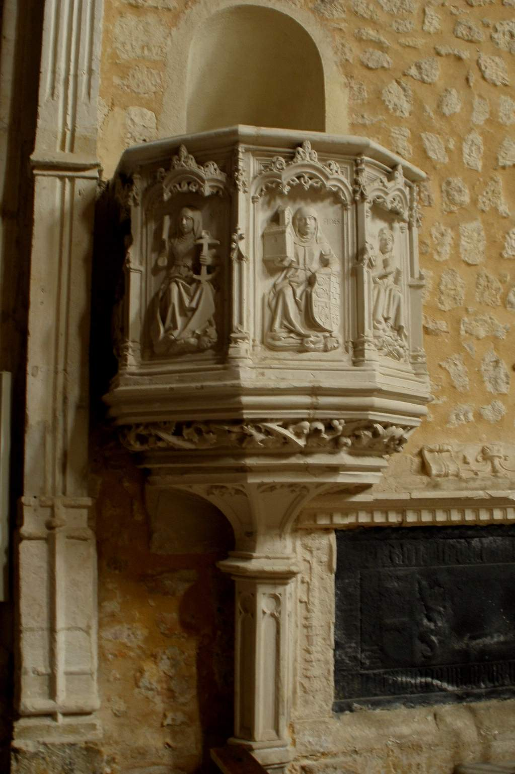 Púlpito de la iglesia del Monasterio del Parral (Segovia)